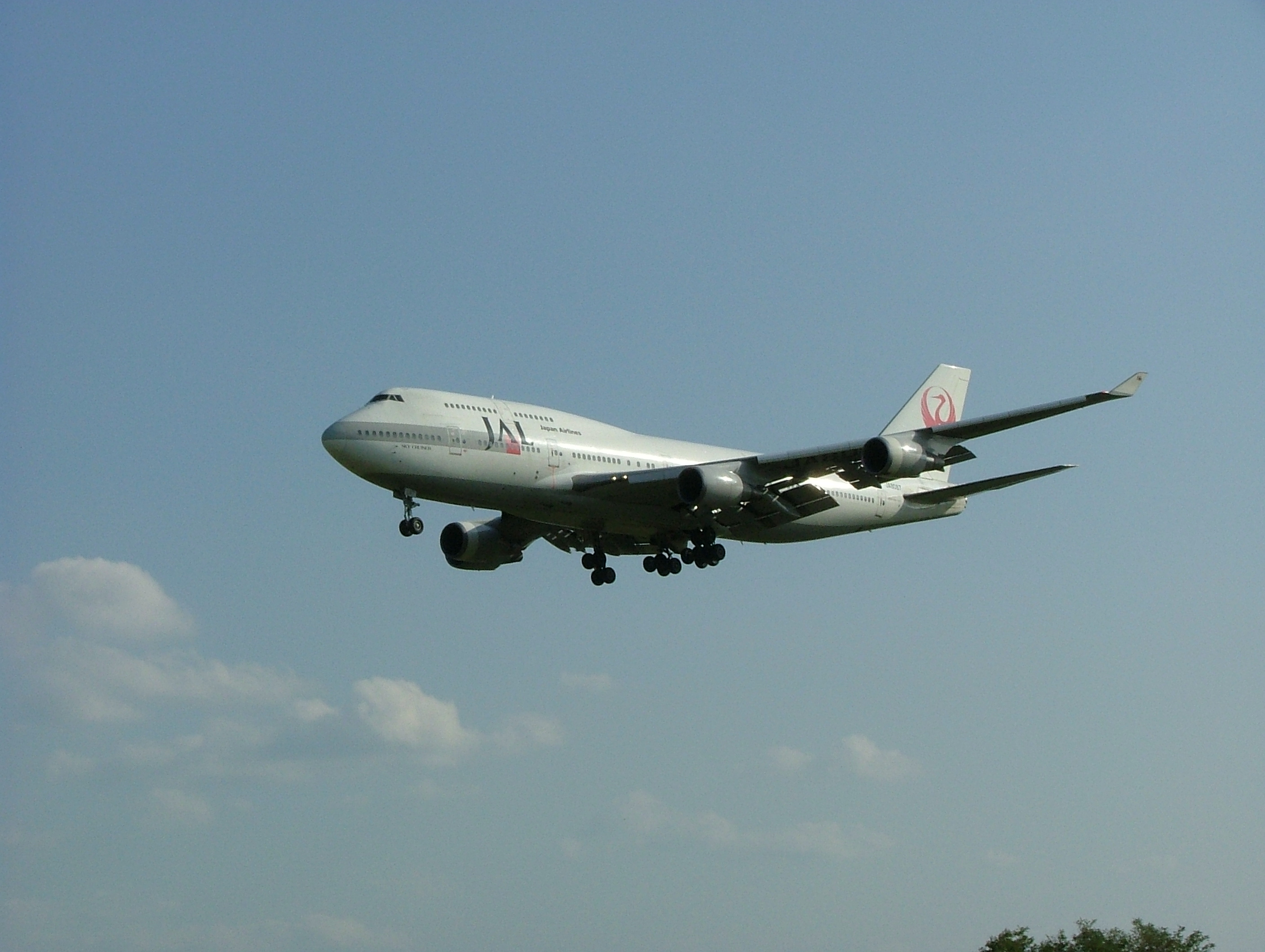 Final approach JAL B-747-400